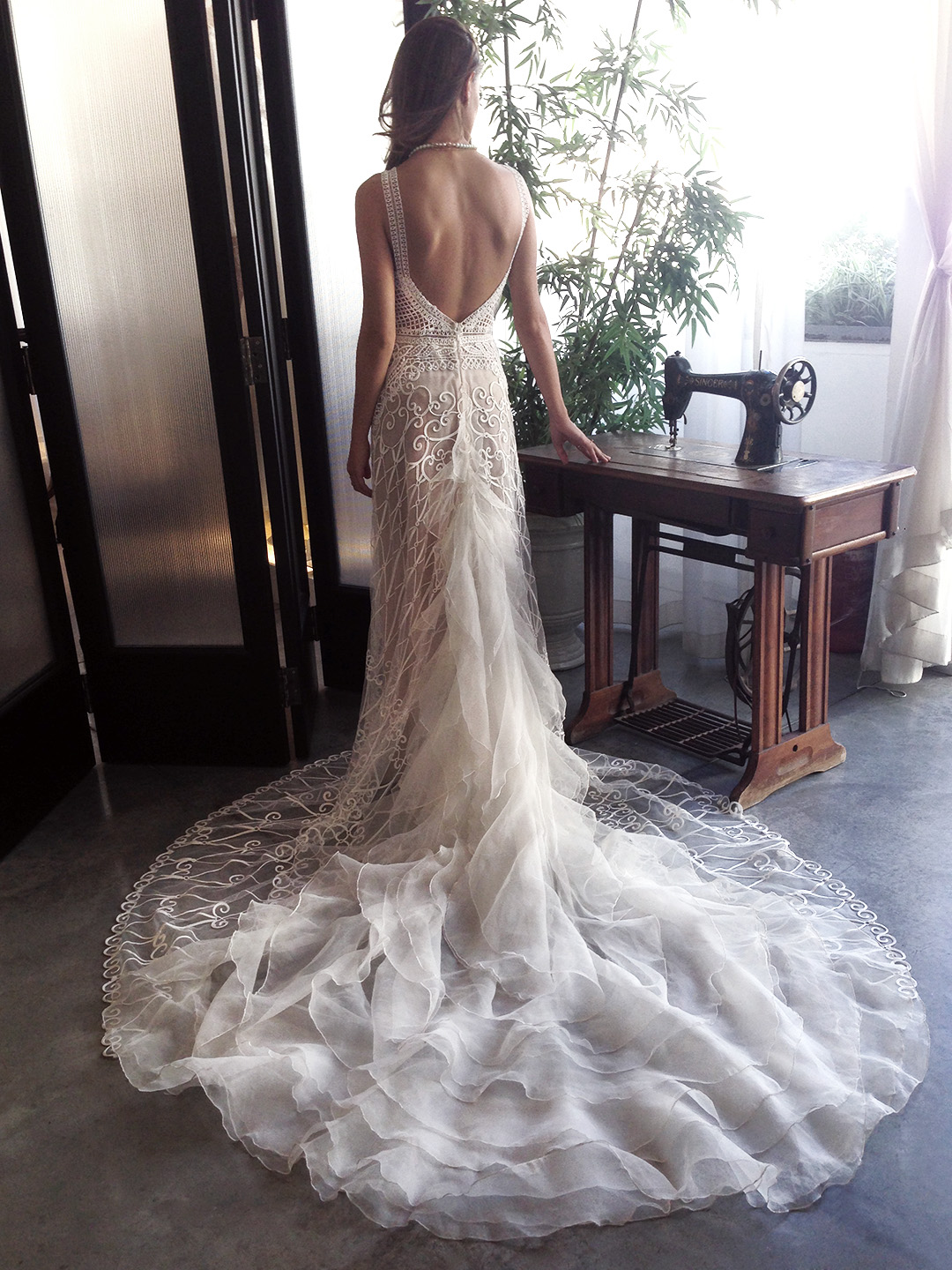 The "Aria" gown by Alon Livne White.